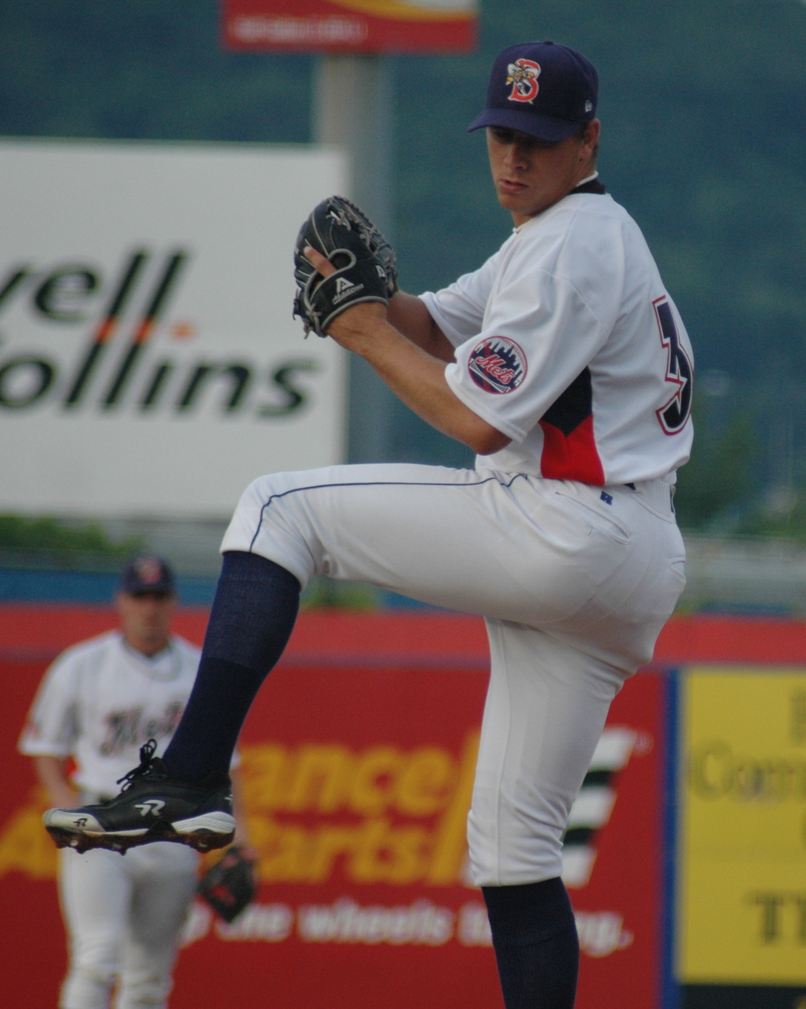 Tobi Stoner delivers a pitch for the Binghamton Mets in 2008 at NYSEG Stadium.